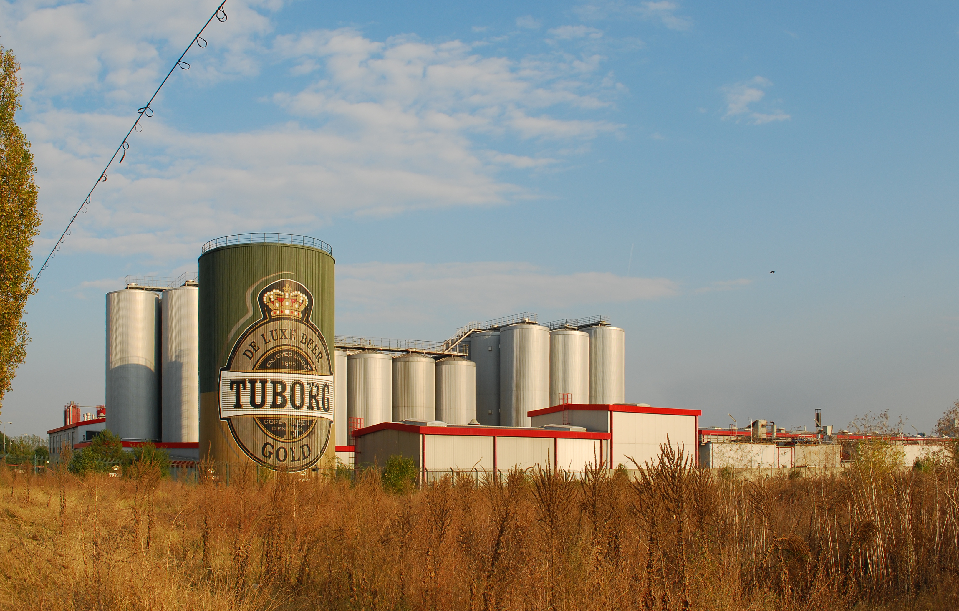 The beer factory in Pantelimon, Ilfov County, Romania